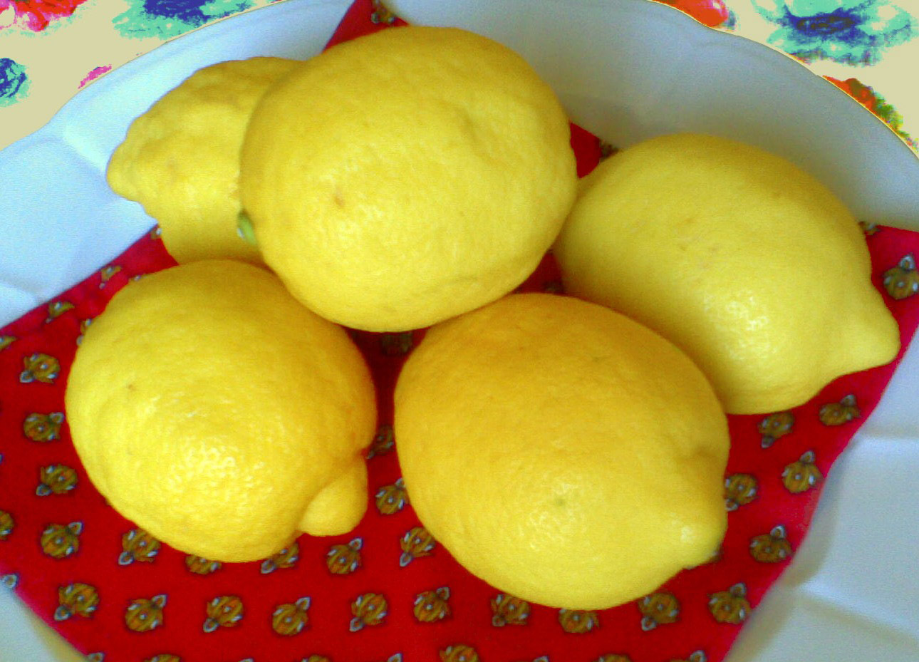 Organic lemon fruits of "Primofiore" variety, from Sicily.